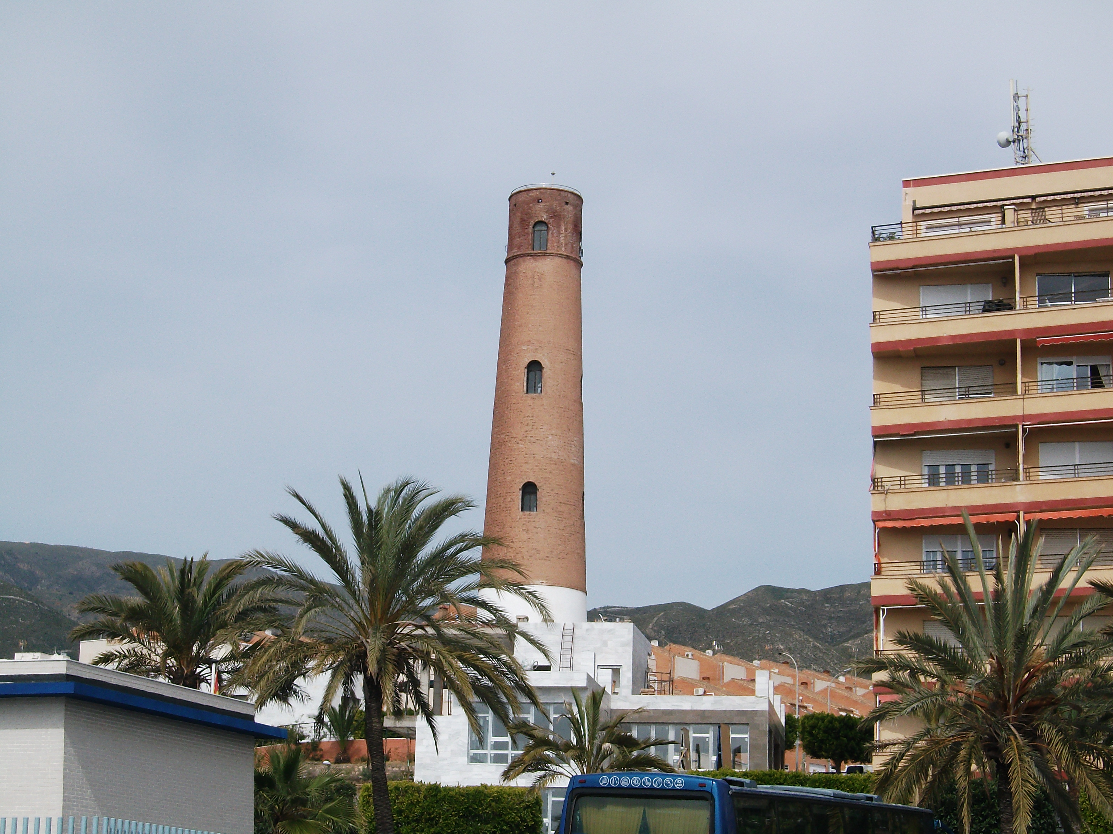 Centro de la ciudad de Adra